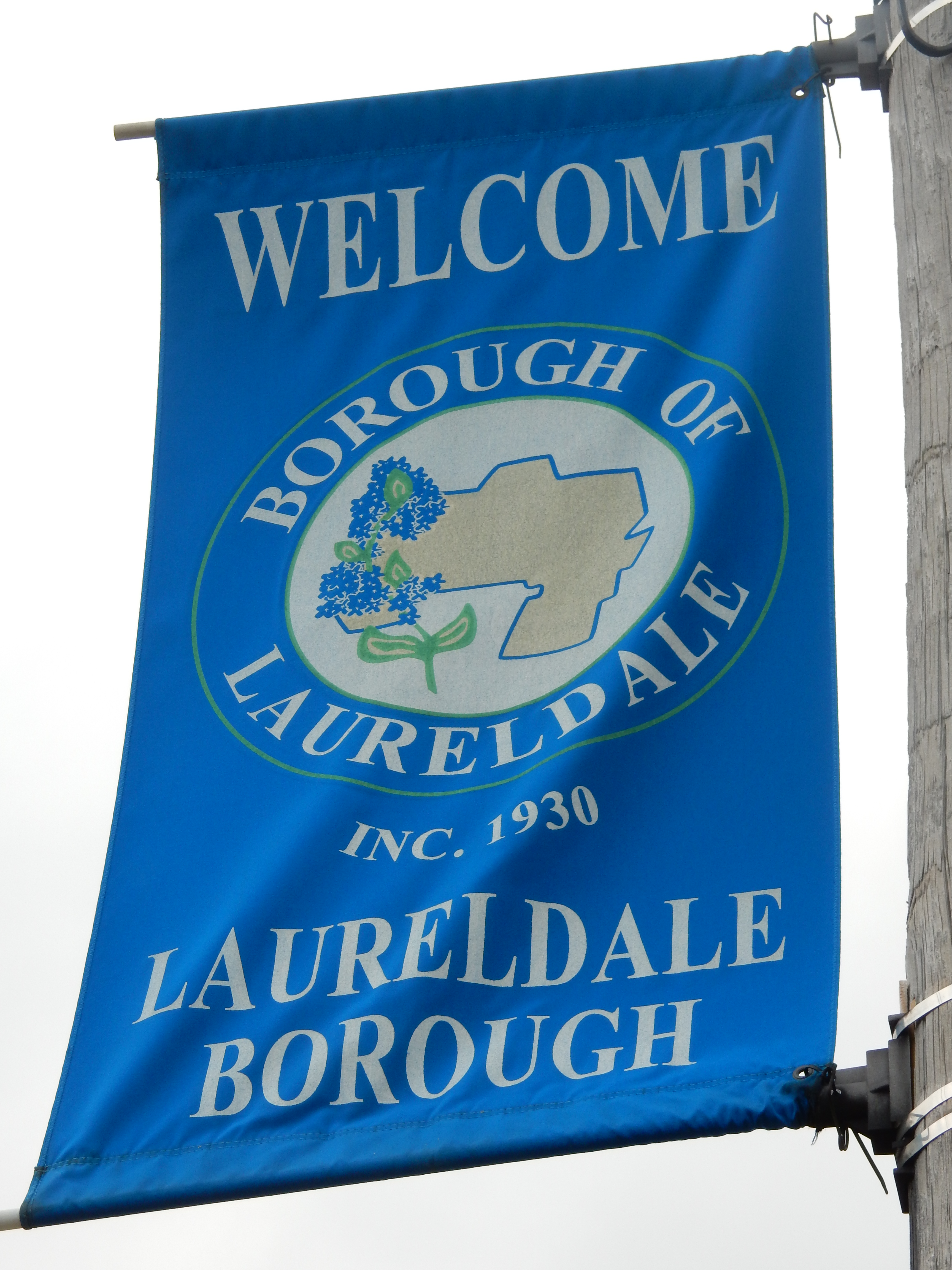 Welcome sign in Laureldale, Berks county, PA.